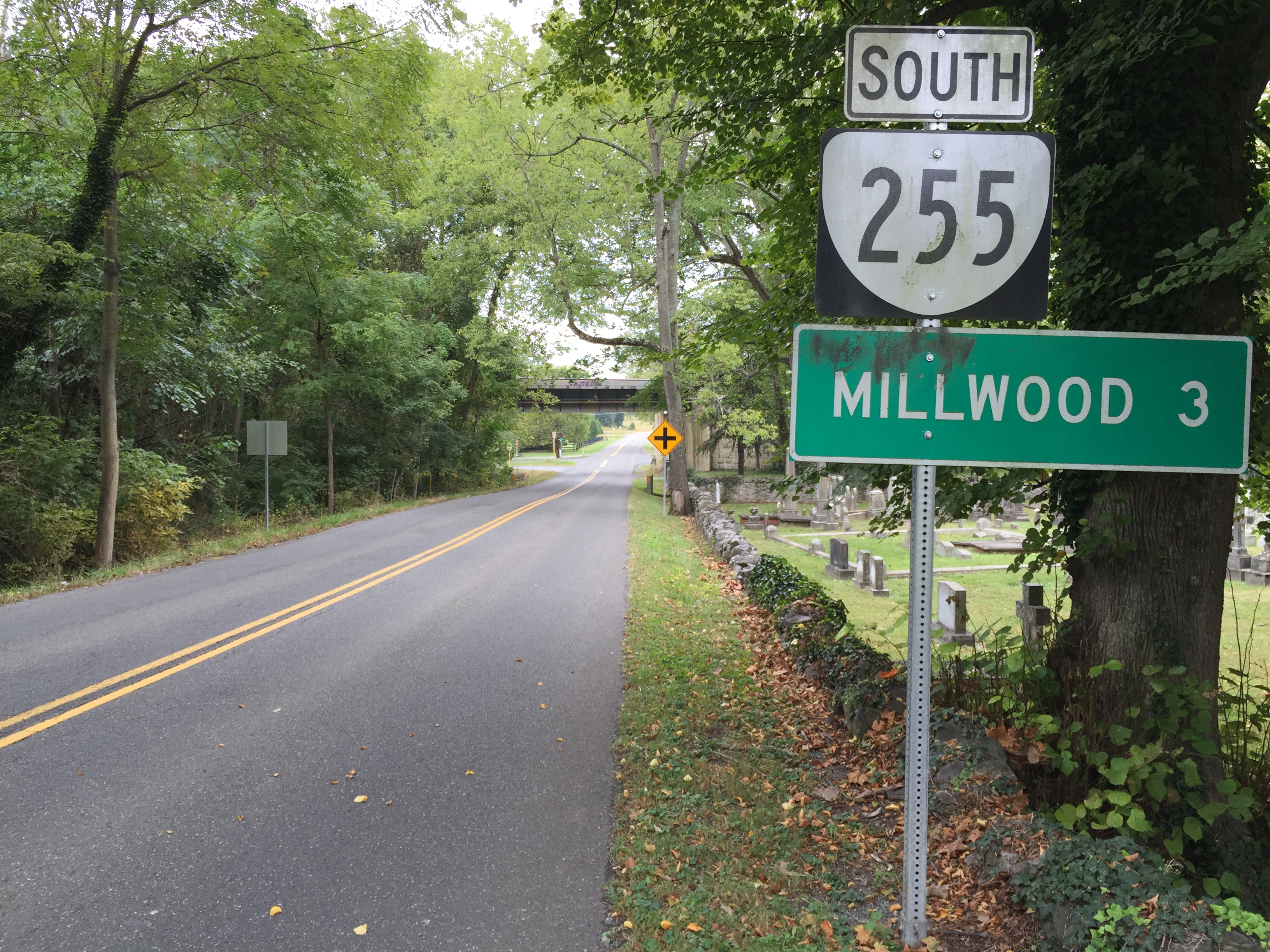 View south along Virginia State Route 255 (Bishop Meade Road) at Lanham Lane in Briggs, Clarke County, Virginia